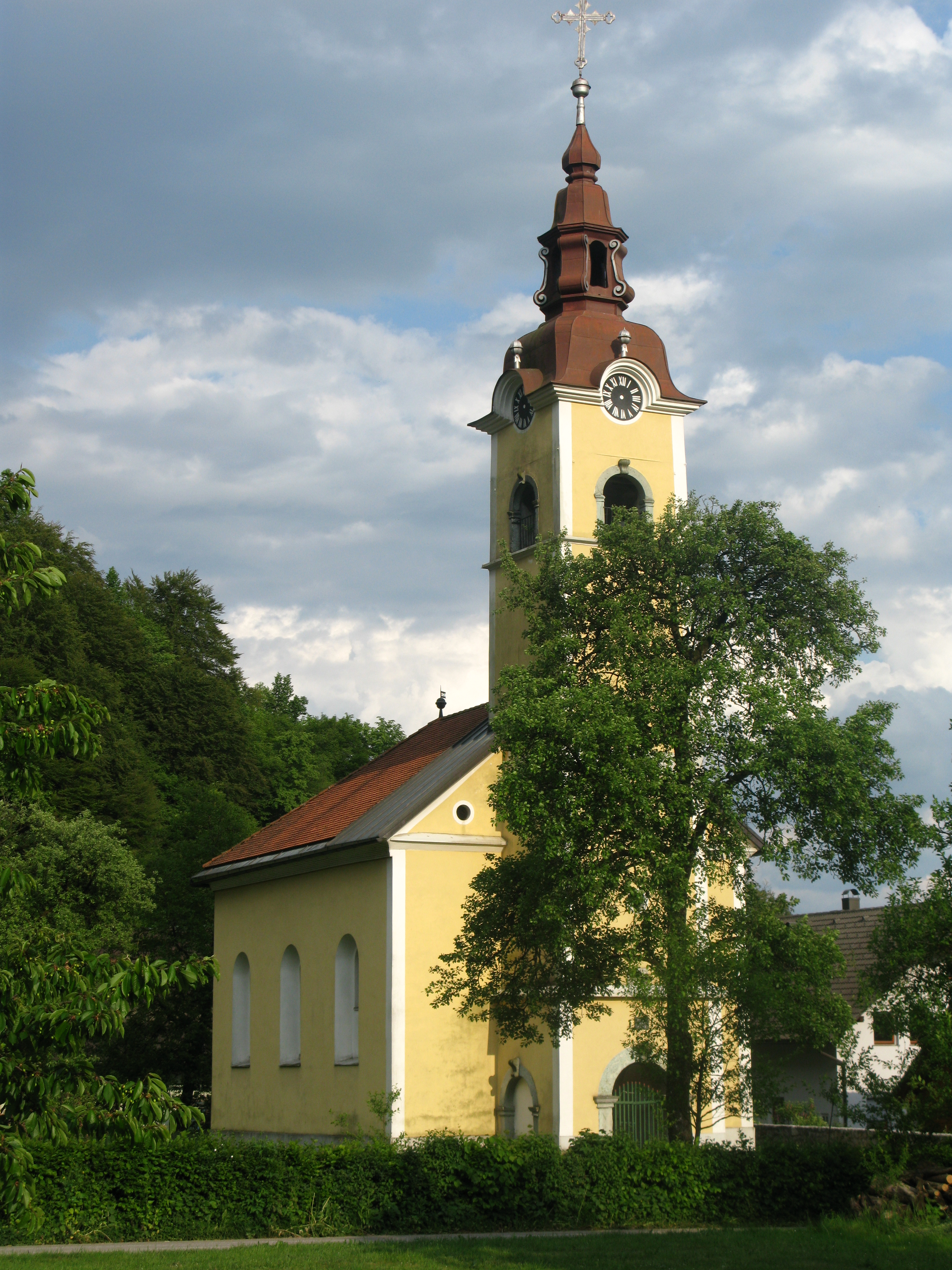 Subsidiary church of St. Helena, Grad (Municipality of Cerklje na Gorenjskem), Slovenia.